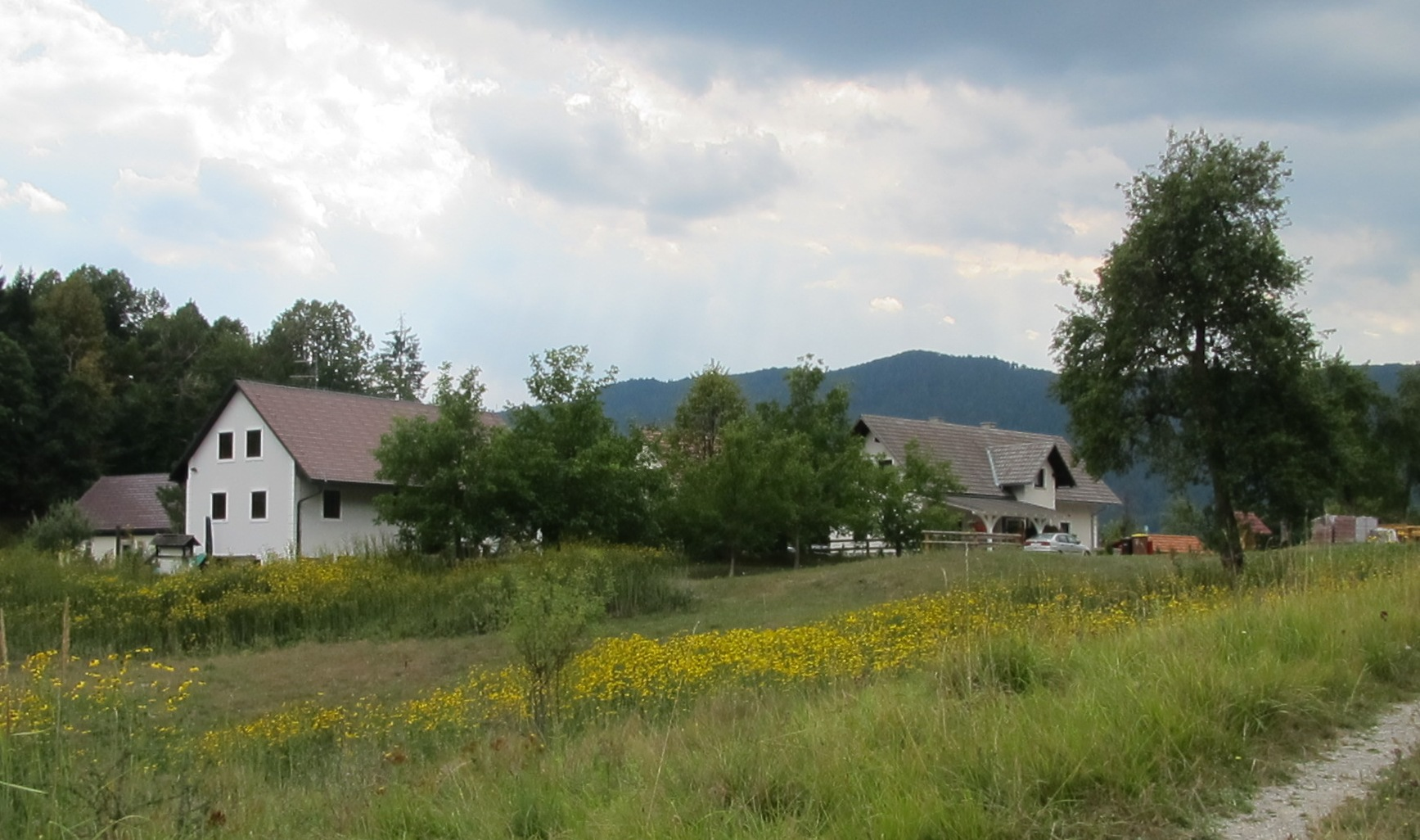 The village of Koce, Municipality of Kočevje, Slovenia